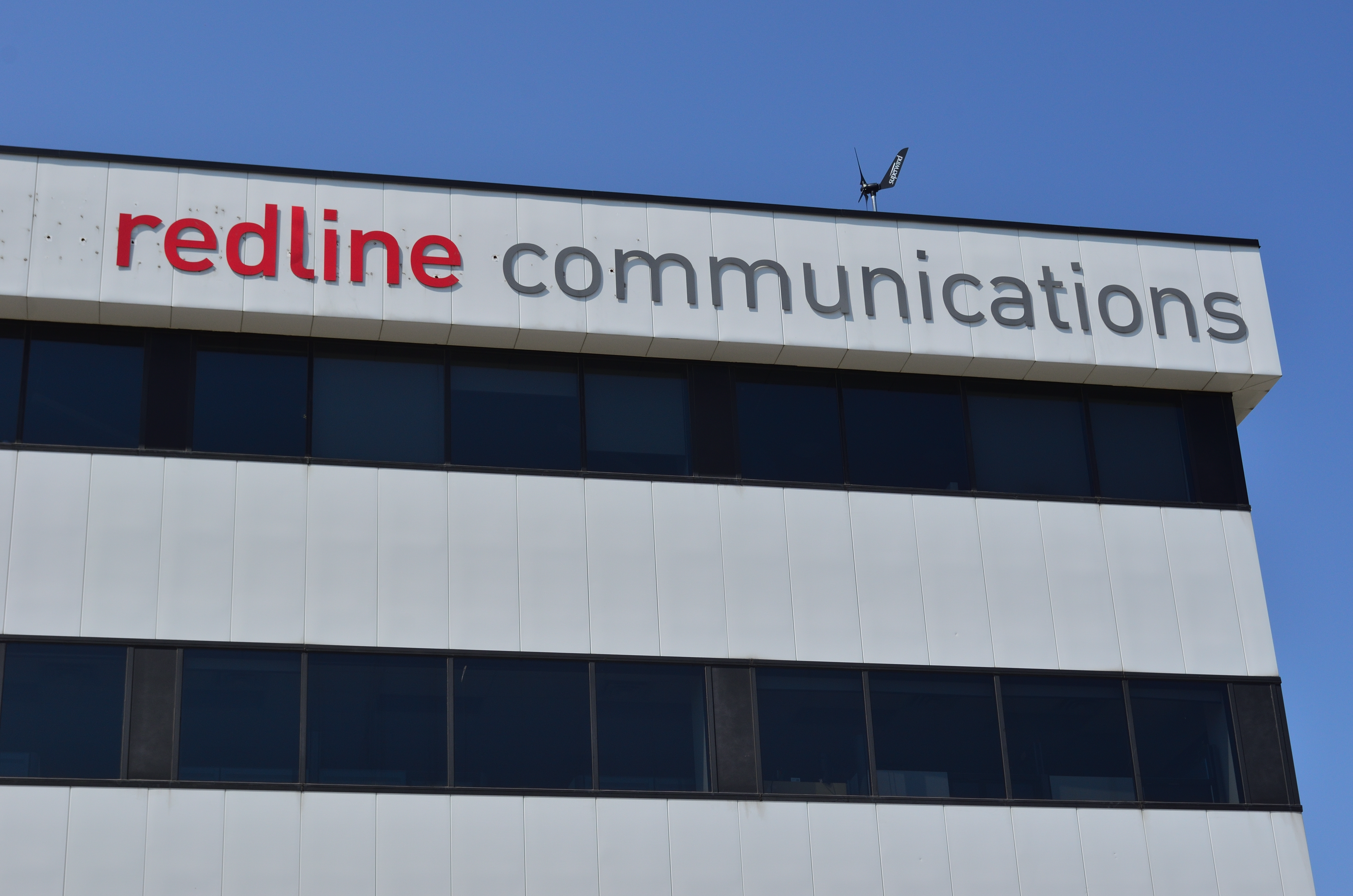 Redline Communications - Address: 302 Town Centre Blvd, Markham, ON L3R 0E8